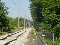 Sun kink near Landgraaf, NL